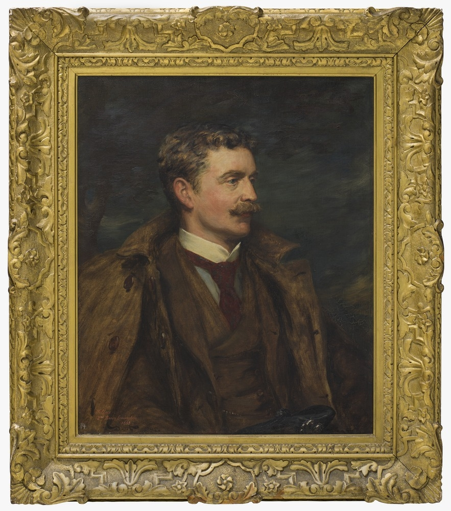 Portrait by Robert Duddingstone Herdman, of Charles Wallace Alexander Napier Cochrane-Baillie, 2nd Baron Lamington G.C.M.G. (1860-1940), Governor of Queensland (1896-1901), Governor of Bombay (1903-1907), Conservative MP for St Pancras North, depicted in semi profile in brown jacket and red tie. Inscribed and titled on label, on the back. Oil on canvas, in decorative gilt frame. Title lower left: "Wallace, 2nd Baron Lamington". Signed with initials, dated 1895. The work is accompanied by the original receipt, with envelope, for 42 pounds, made out by the artist to Lord Lamington's mother, Lady Lamington, who presumably commissioned the painting. The envelope is annotated and the receipt is dated 2 March 1895. A facsimile of the receipt is attached to the back of the painting. The original is separately housed.